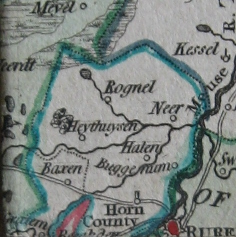 Territory of the County of Horne (also spelled Horn) in the Low Countries. Since the mid 16th century, Horne had been ruled in personal union by the prince-bishops of Liège. Cropped from a map of the Low Countries by British map publisher William Faden. Published in 1789.